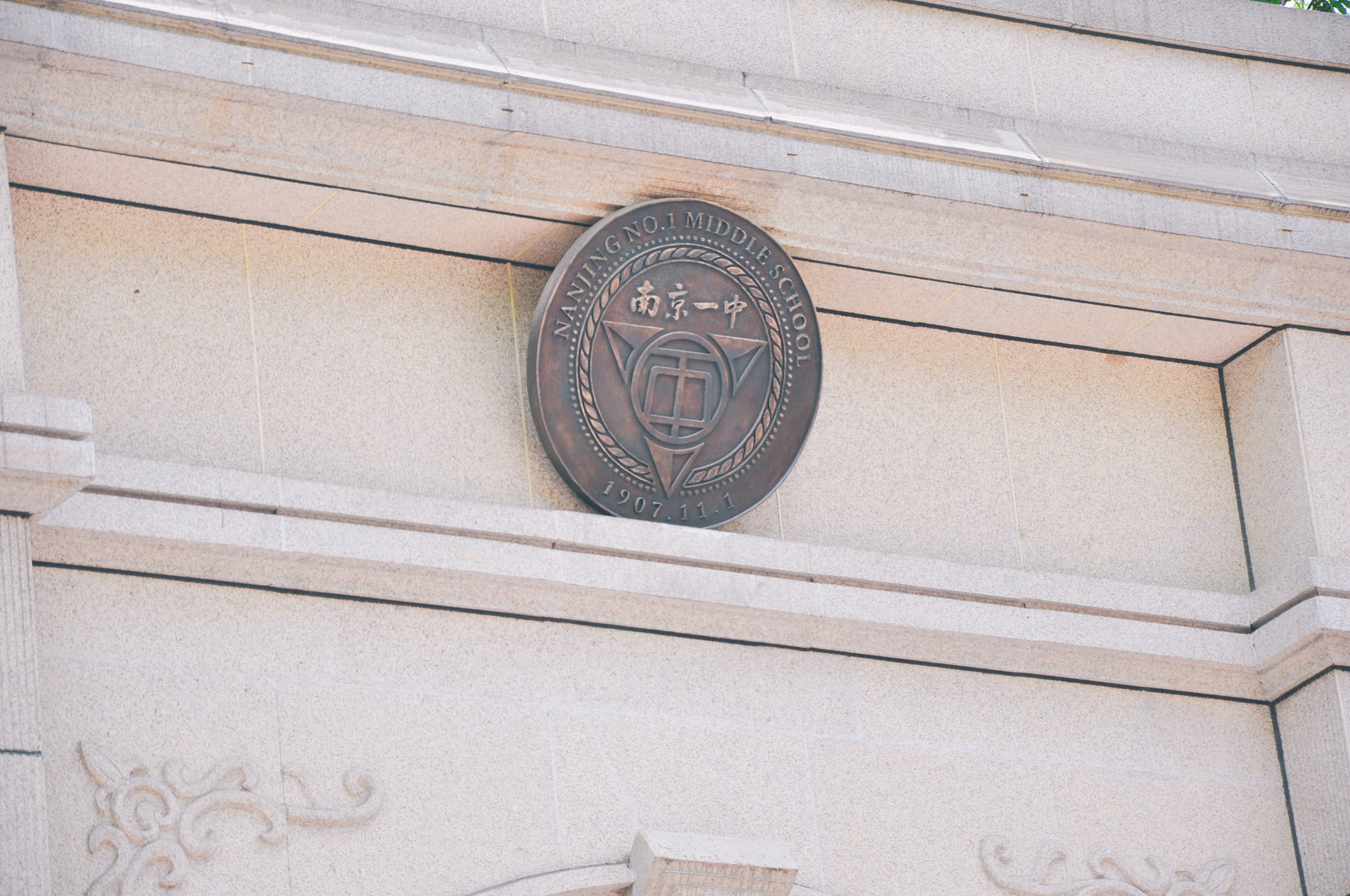 School Badge of Nanjing No.1 Middle School